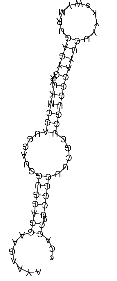 NA secondary structure of TB8Cs2H1 generated by the WAR server( It is the mafftpfold structure from several Trypansomatid species -Leishmania infantum, Leishmania mexicana, Trypanosoma brucei, Trypanosoma brucei gambiense, Trypanosoma cruzi, Trypanosoma congolense, Trypansoma vivax --with some manual editing and redrawing of the structure with RNAplot from the Vienna RNA package